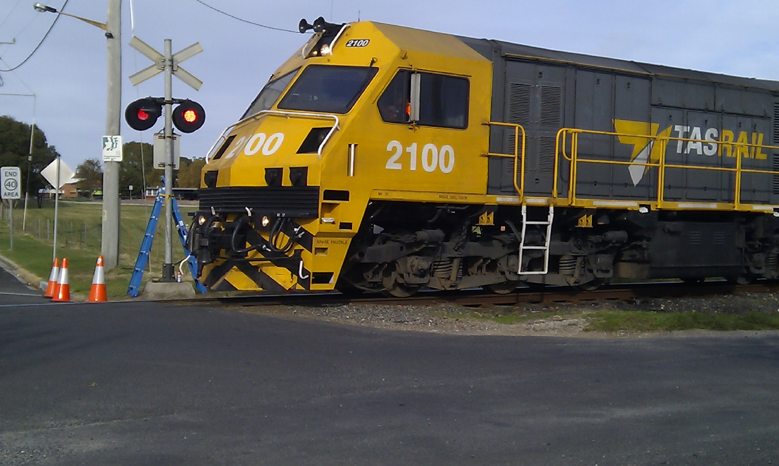 TasRail - Unit # 2100 locomotive.